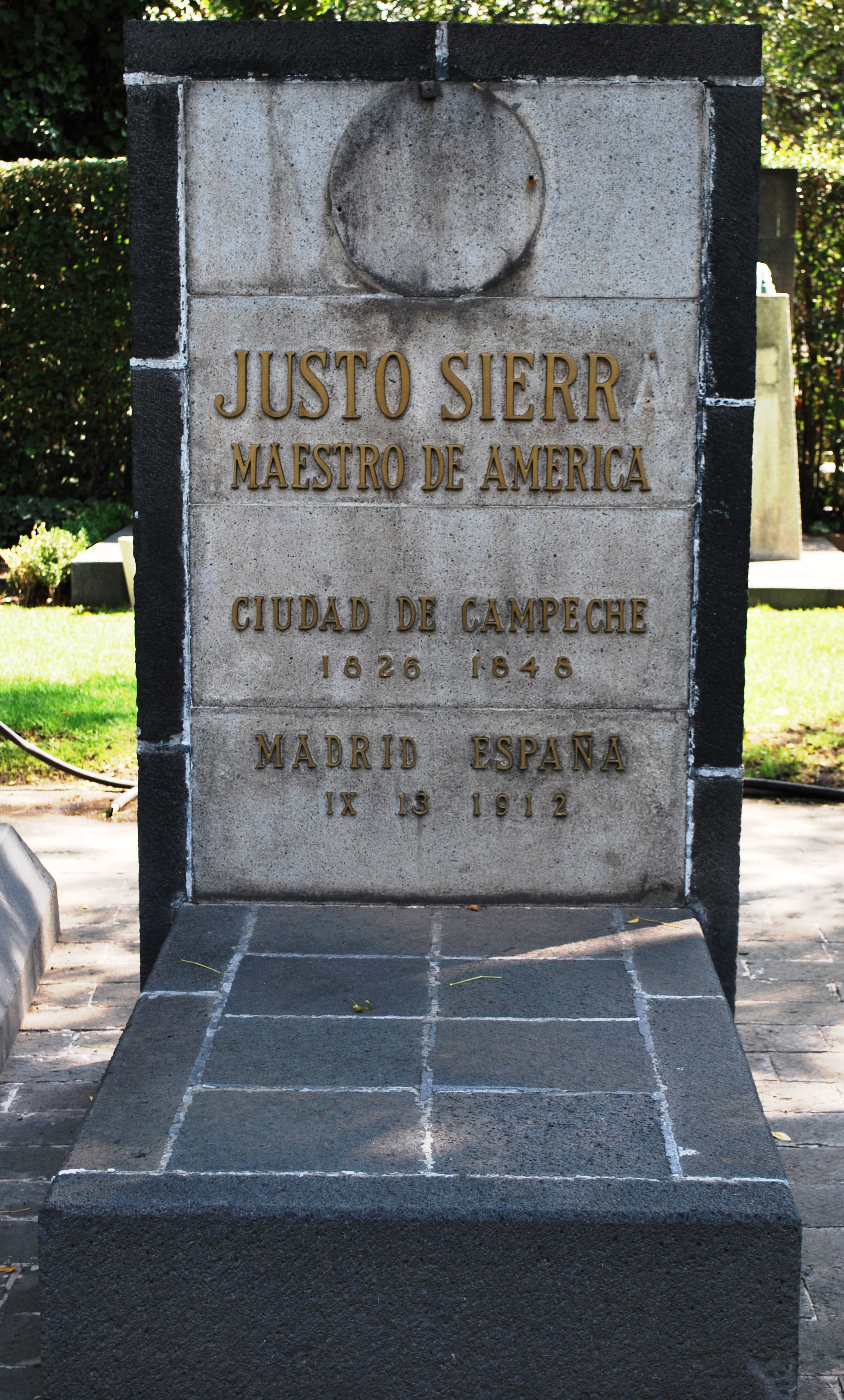 Tomb of Justo Sierra in the Panteon Civil de Dolores cemetery in Mexico City